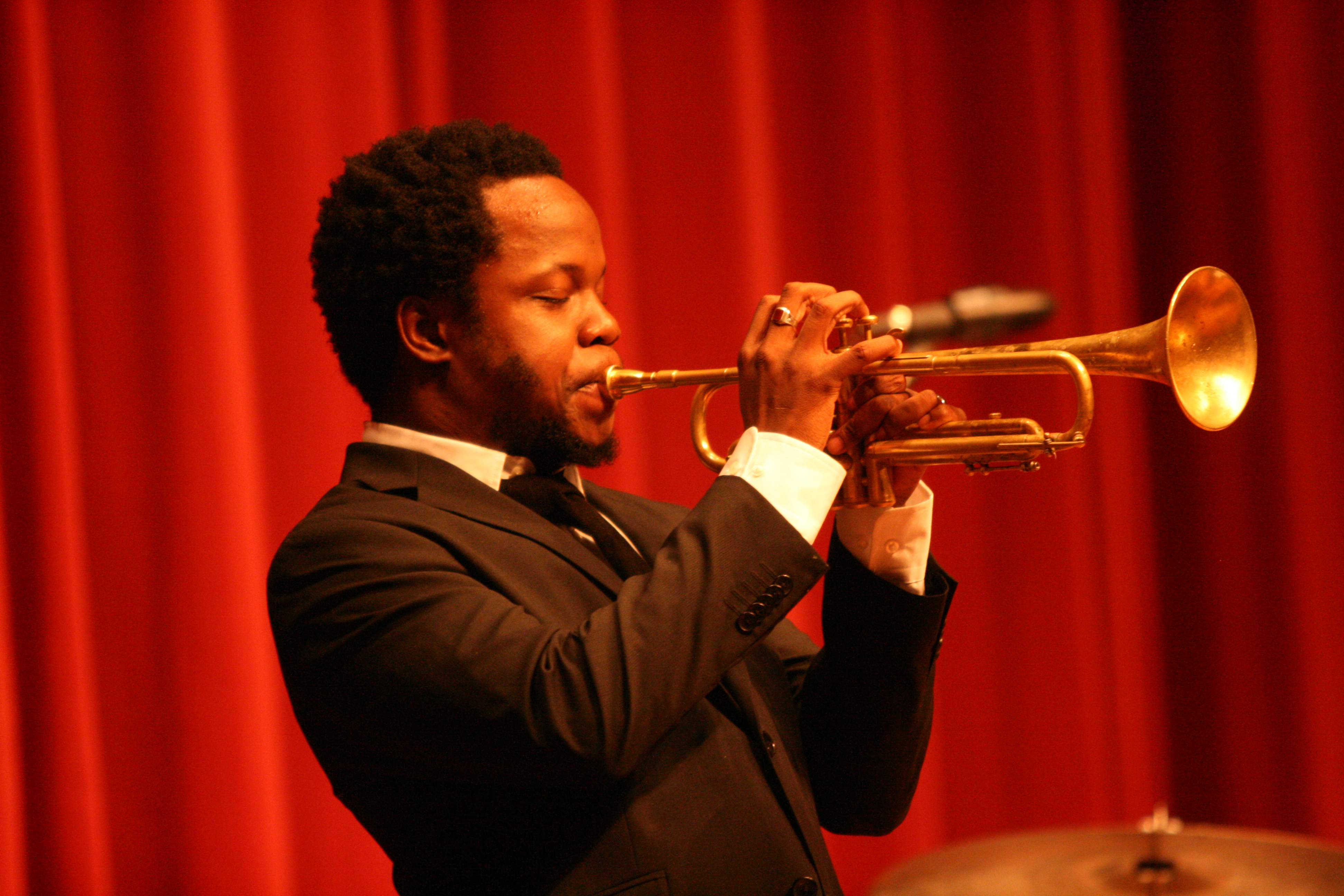 Jazz trumpeter Ambrose Akinmusire in 2011. Photo courtesy of Bob Doran, via Flickr.